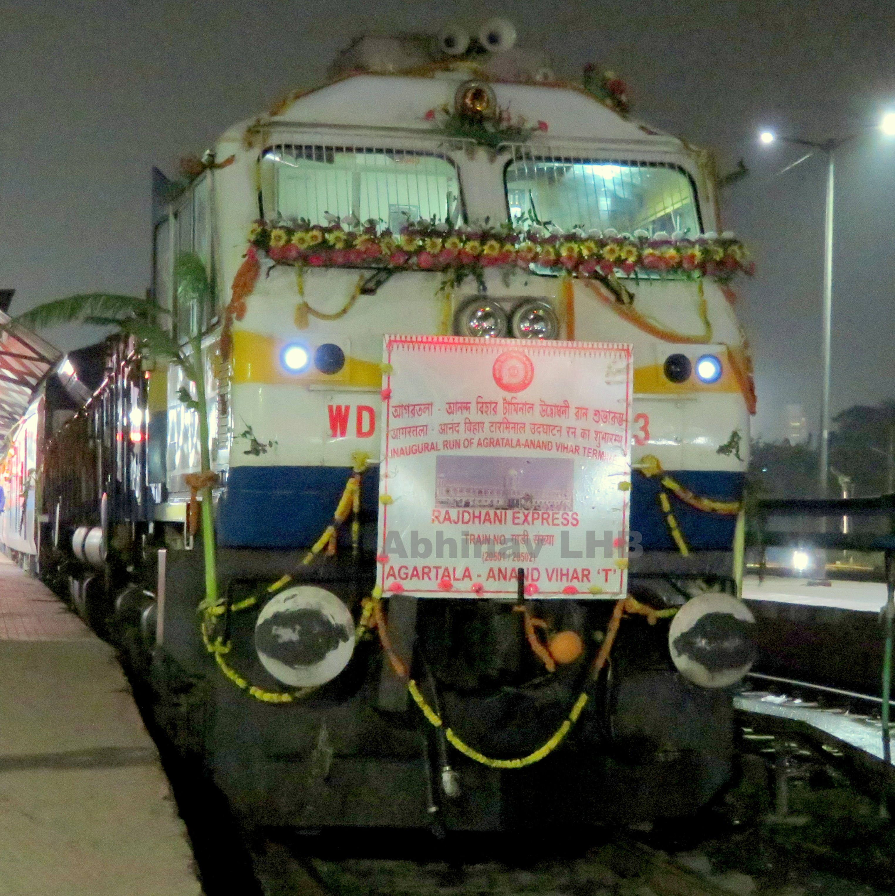 Inaugural Run of Agartala - Anand Vihar Rajdhani Express ! Complete Coverage from Guwahati !! Please do watch the video: Please watch the video for more details and complete description.